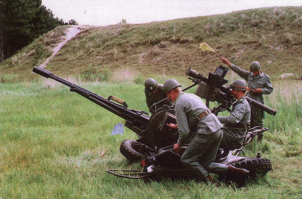 ZUR-23-2S Jod